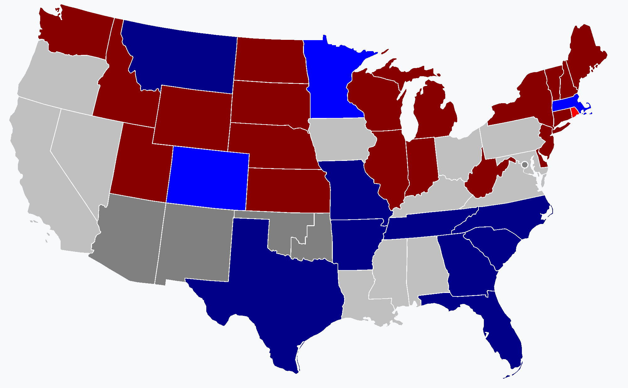 A map showing the results of the 1904 United States Gubernatorial elections